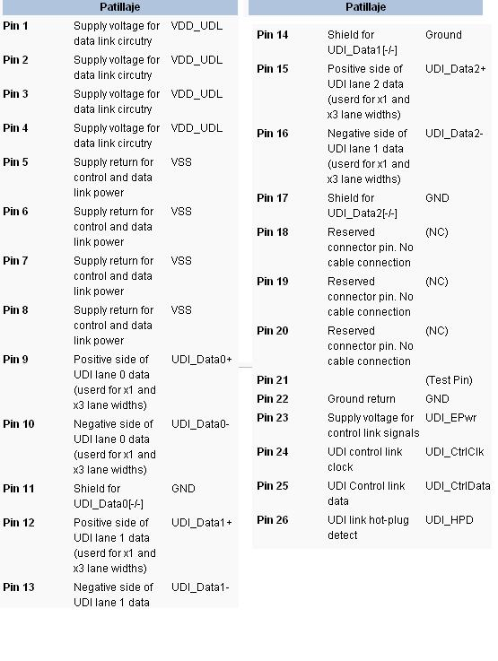 Taula de pins Unfied Display Interface